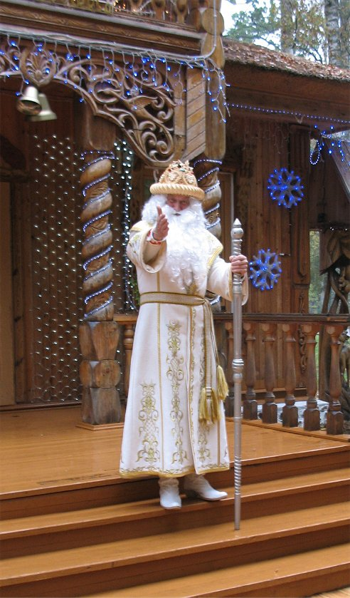 Official Grandfather Frost in front of his home in Belaveskaja Puštša national park, Brest region, Belarus. This "market oriented" Grandfather Frost's home i.e. tourist visiting center was built some years ago. Grandfather Frost is the local colleague of Santa Claus and this character is much more common public figure than Santa Claus both in Belarus and Russia. Main season of public visits in kinder gardens, schools, and other public places (elsewhere than in his "home") is between 1. December till around 10. January (time of Orthodox Christmas in Belarus/ Russia= 7. January). Coordinates of Grandfather Frost's home 52°37′01.00″N 23°53′56.82″E / 52.61694°N 23.8991167°E.